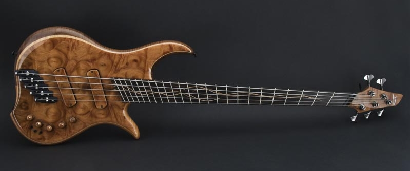 A Dingwall Prima Artist bass guitar that features Fanned Frets.